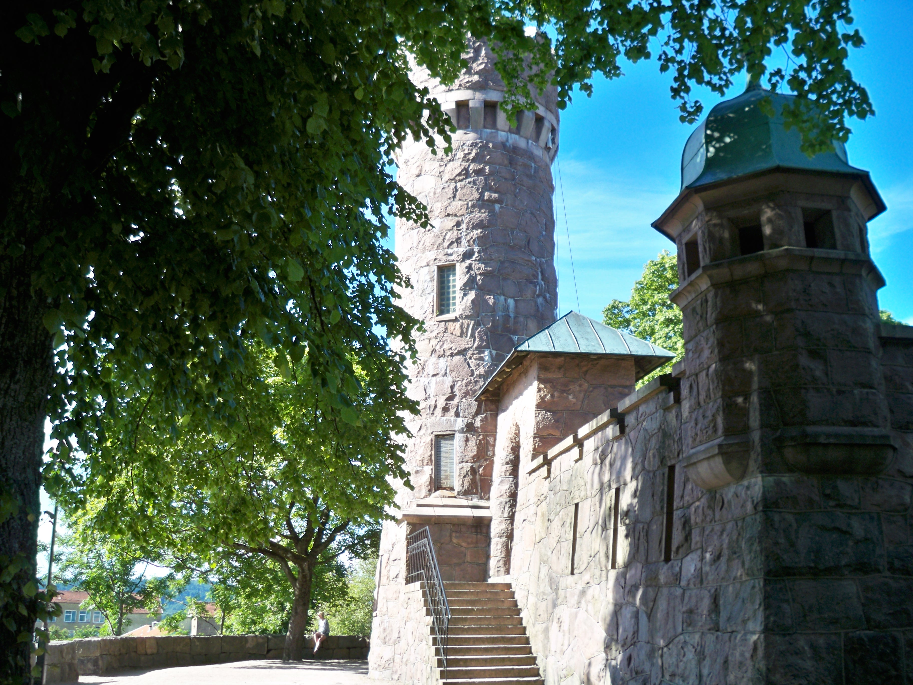 Water Tower in Borås, Sweden